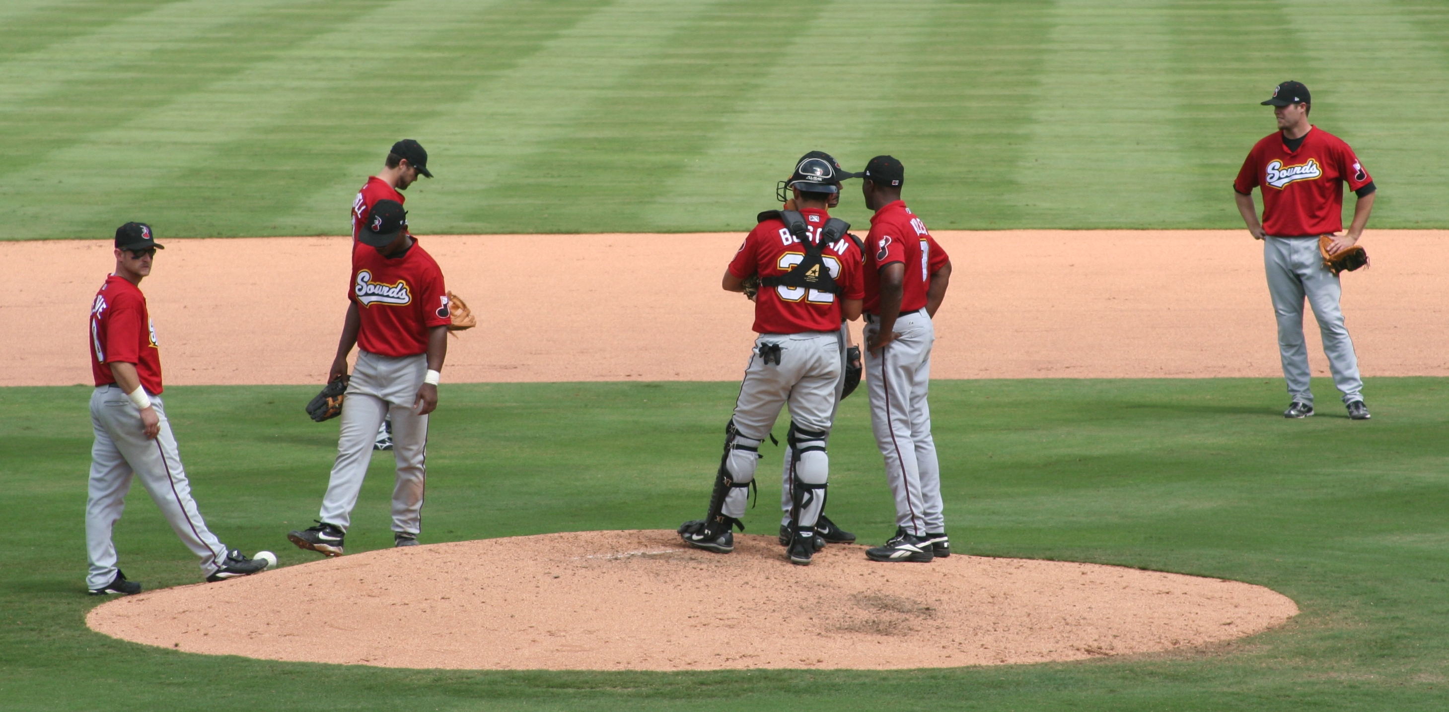 Baseball players for the minor league Nashville Sounds, having a meeting around the pitcher's mound in a game at the Dell Diamond on September 9, 2006